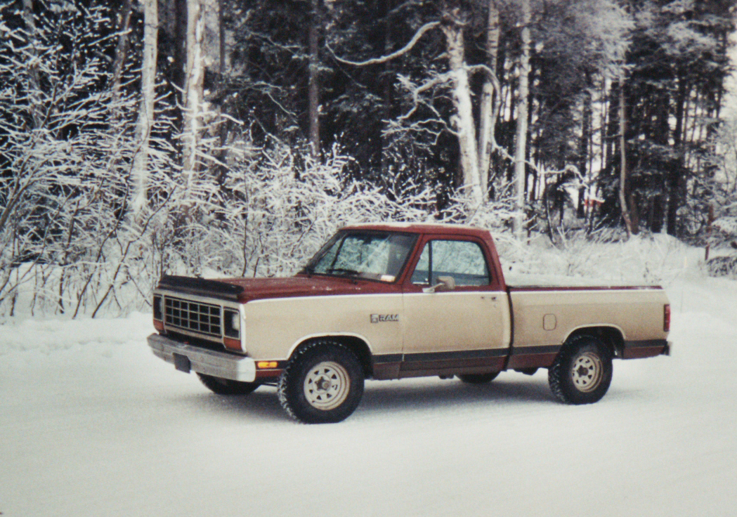 1981-1985 Dodge Ram D150 in Anchorage, AK